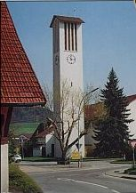 This is the Church of Untersiggingen